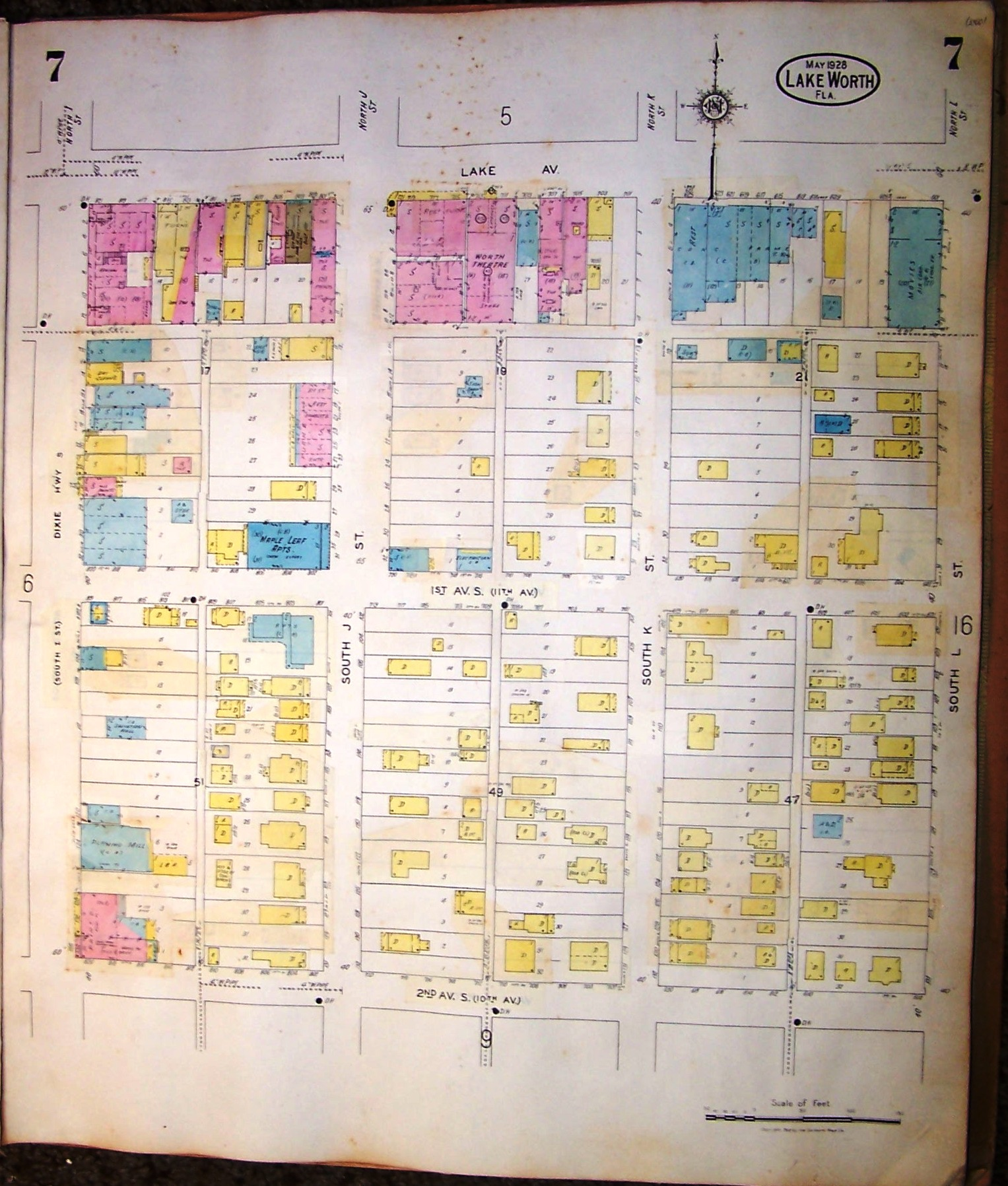 1928 Sanford Map Book (updated 1940, 1947)